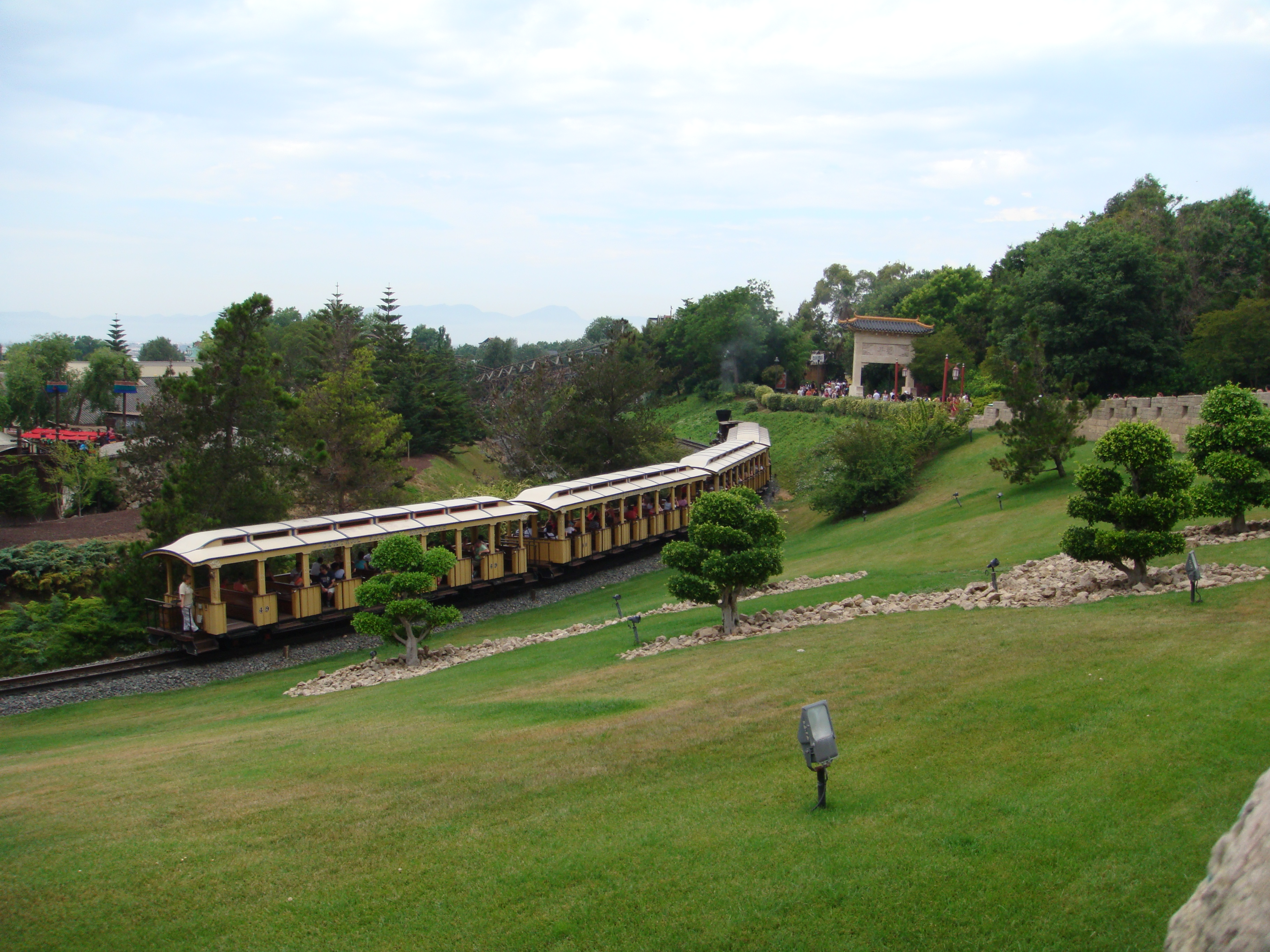 Train thru China.